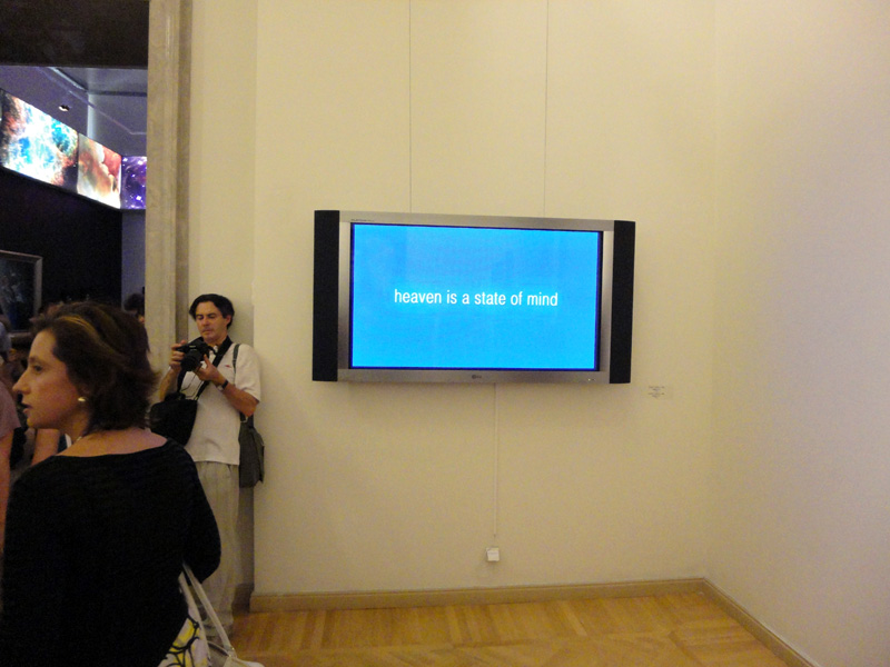 Robert Huber, videoinstallation „Heaven“, exhibition opening „The Sky in Art“, State Russian Museum, St. Petersburg, 12. August.2010